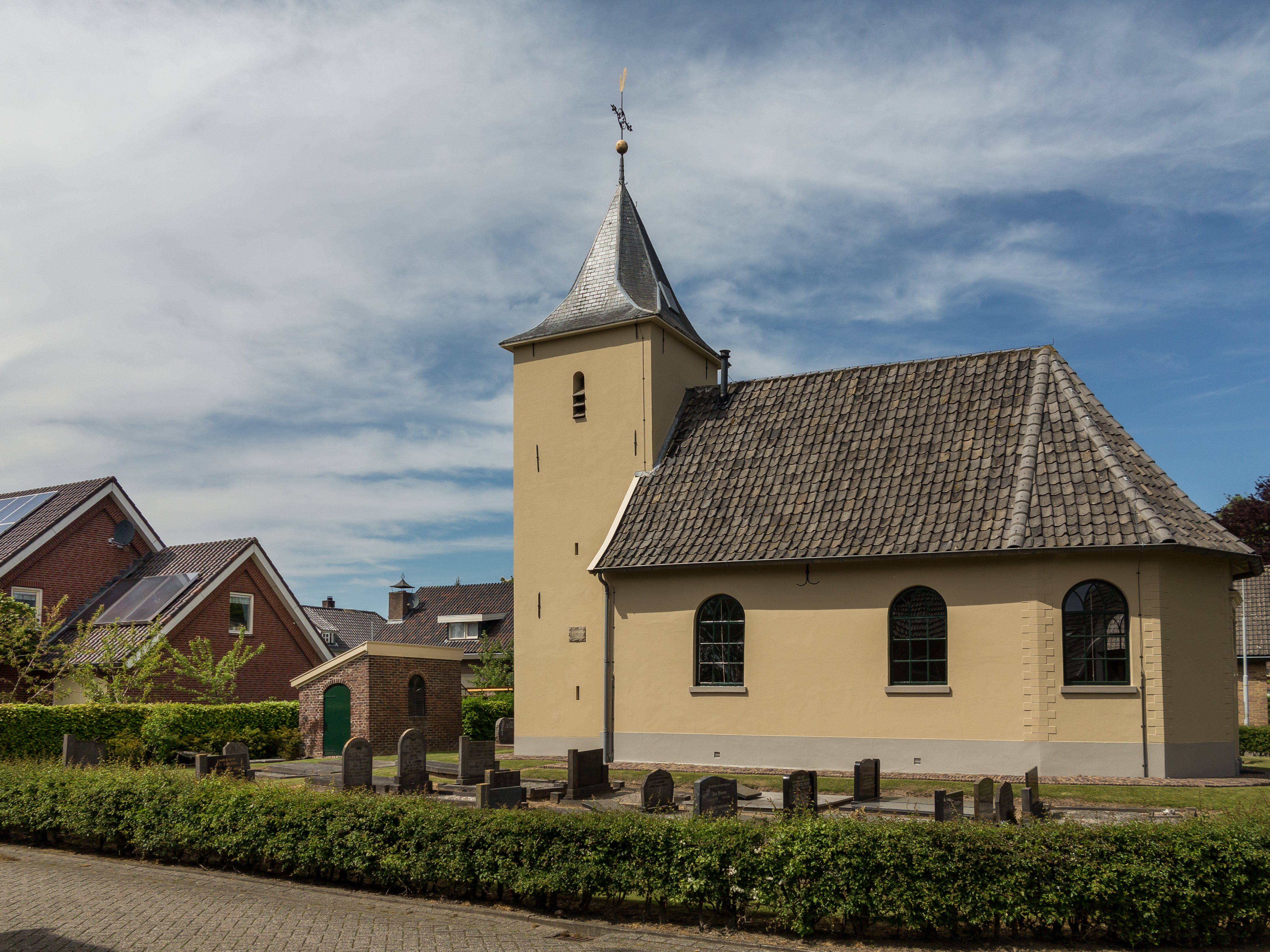 Megchelen, reformed church